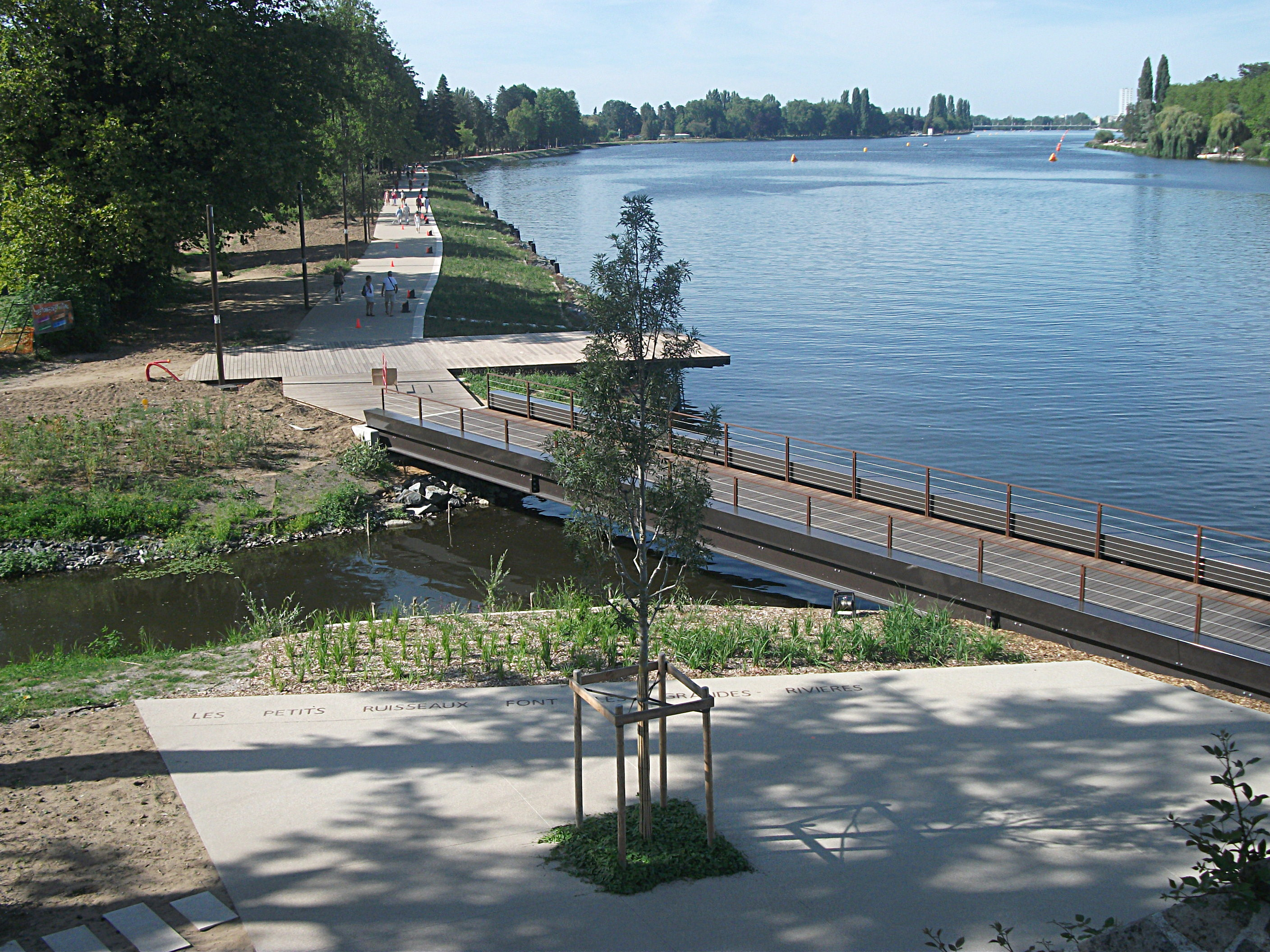 Berges de l'Allier renovated with Allier and Sarmon rivers, in Bellerive-sur-Allier, Allier, Auvergne-Rhône-Alpes, France. [19053]